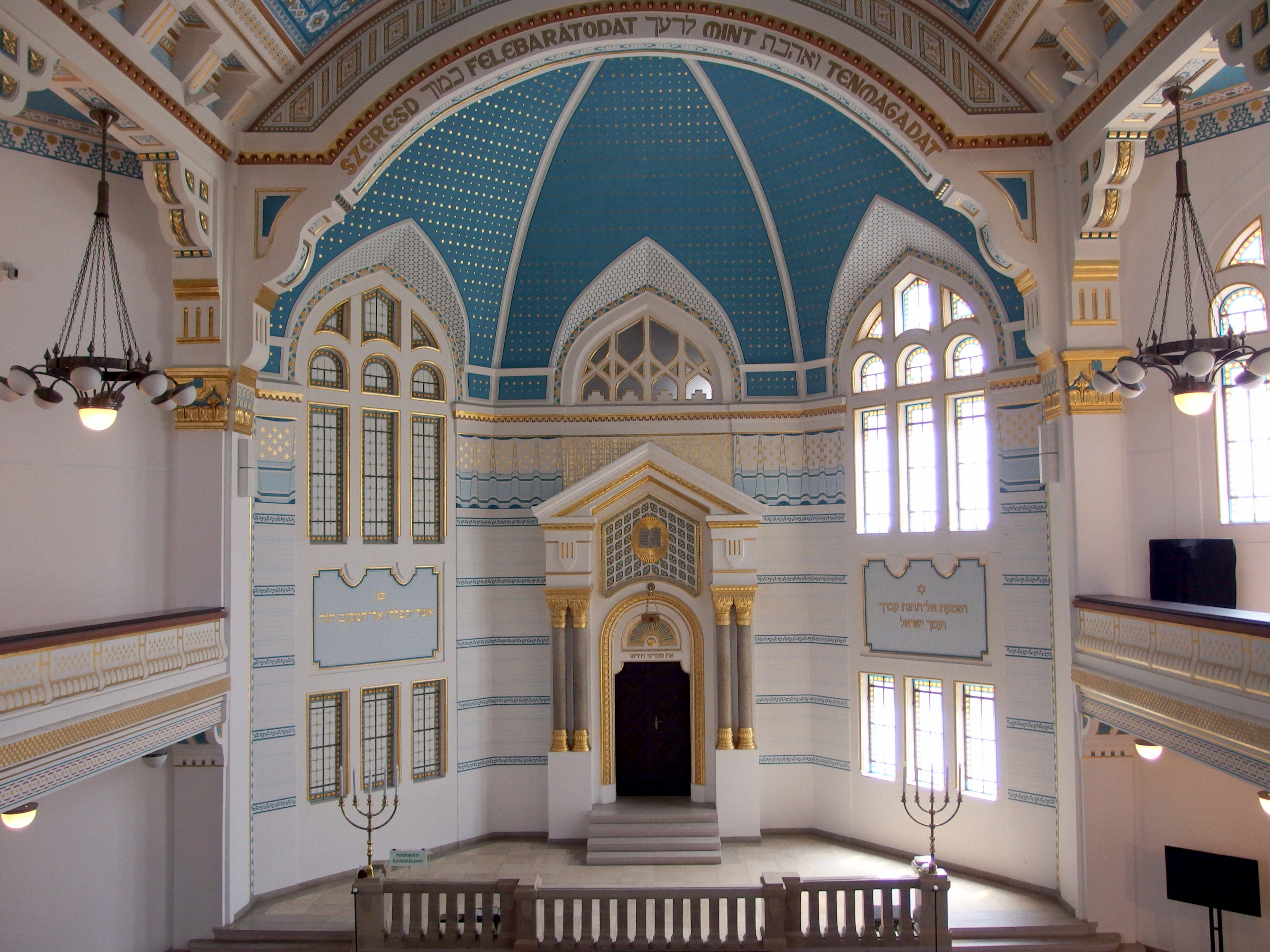 2013-06-13 in Budapest